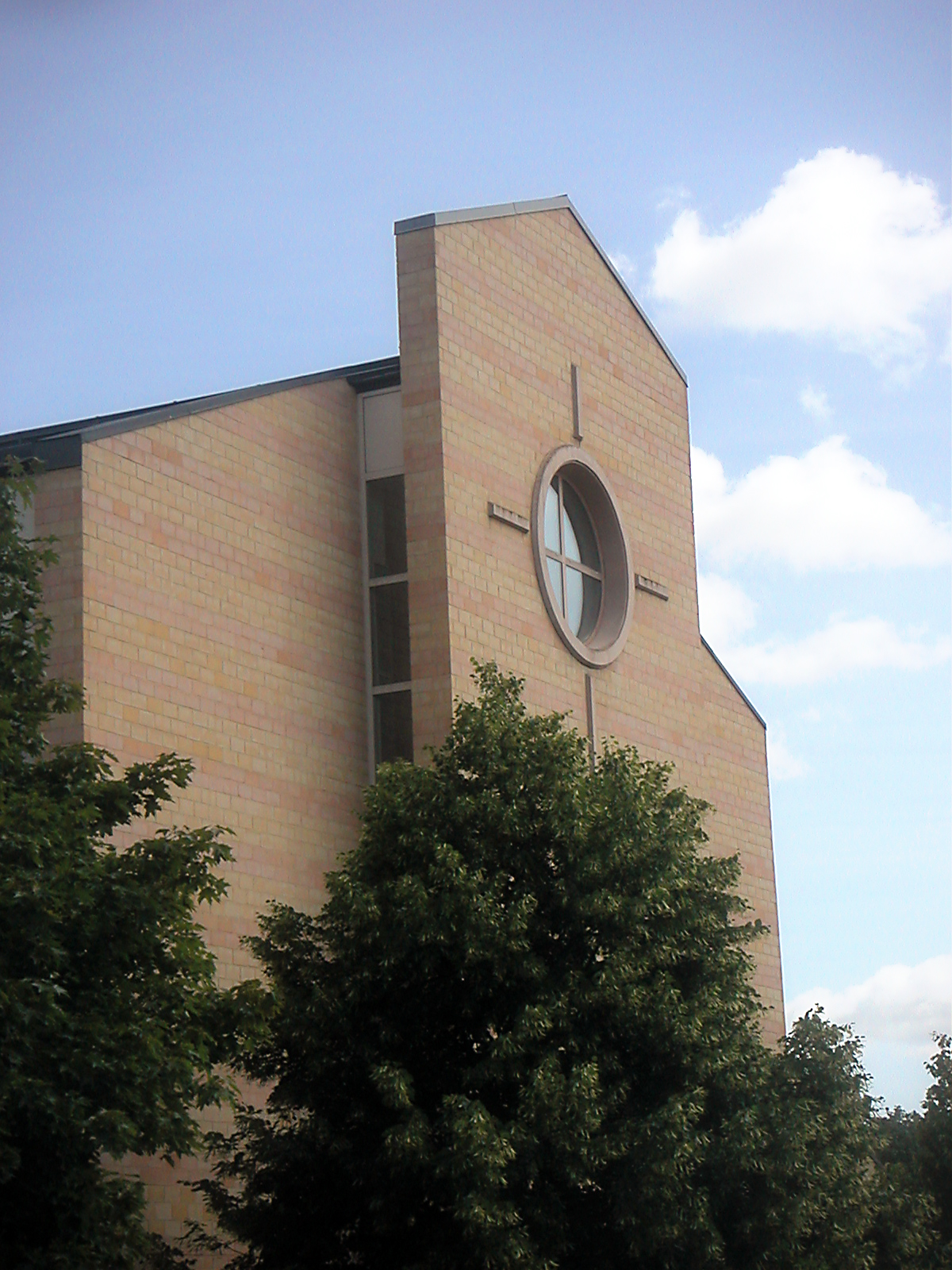 Lötenkyrkan, a modern church in Uppsala, Sweden.